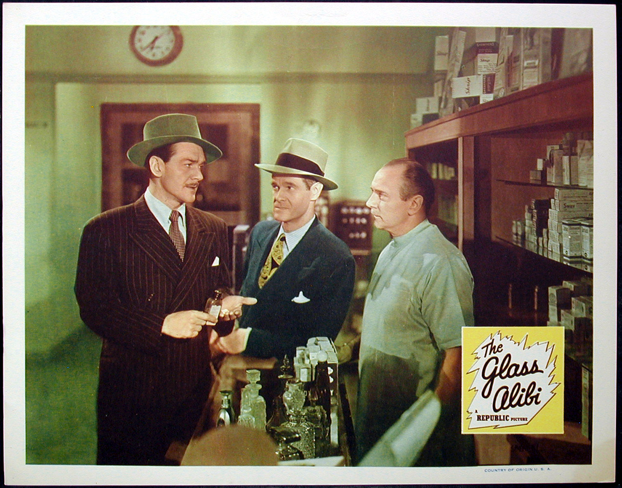 Lobby card from the 1948 film The Glass Alibi.